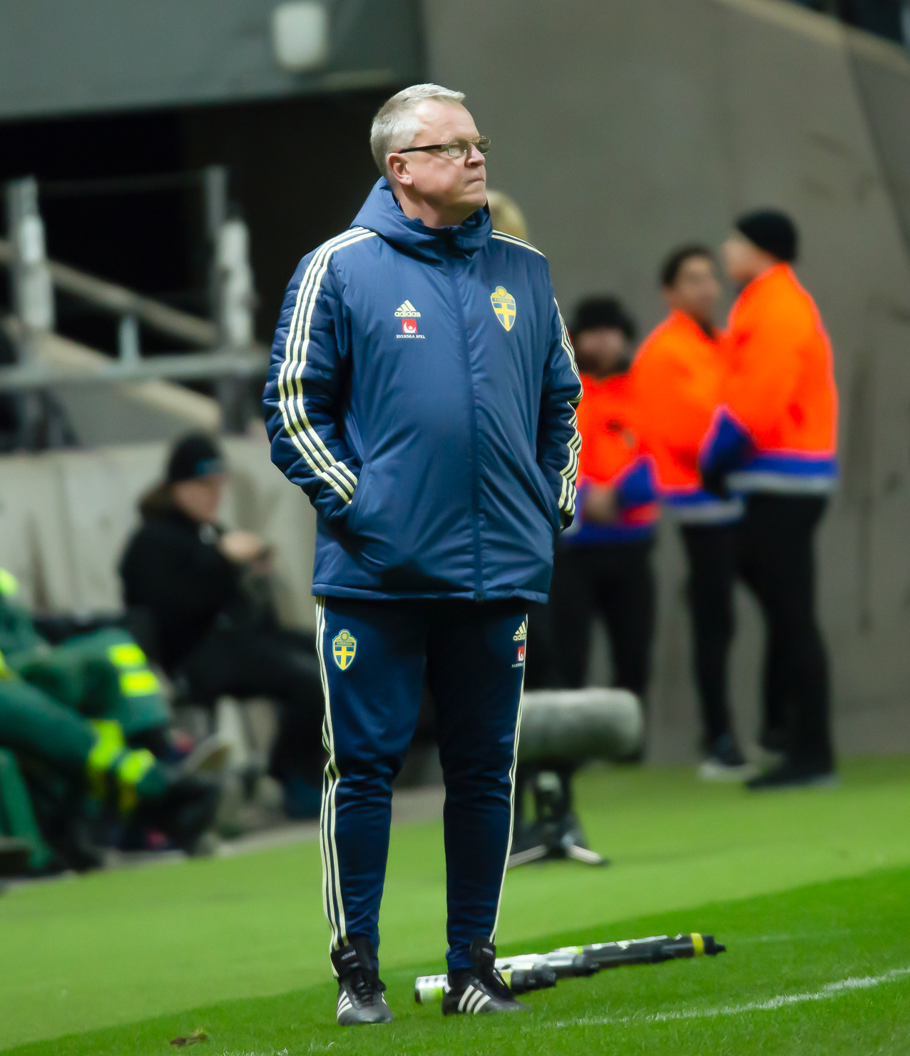 UEFA EURO qualifiers Sweden vs Romaina 20190323